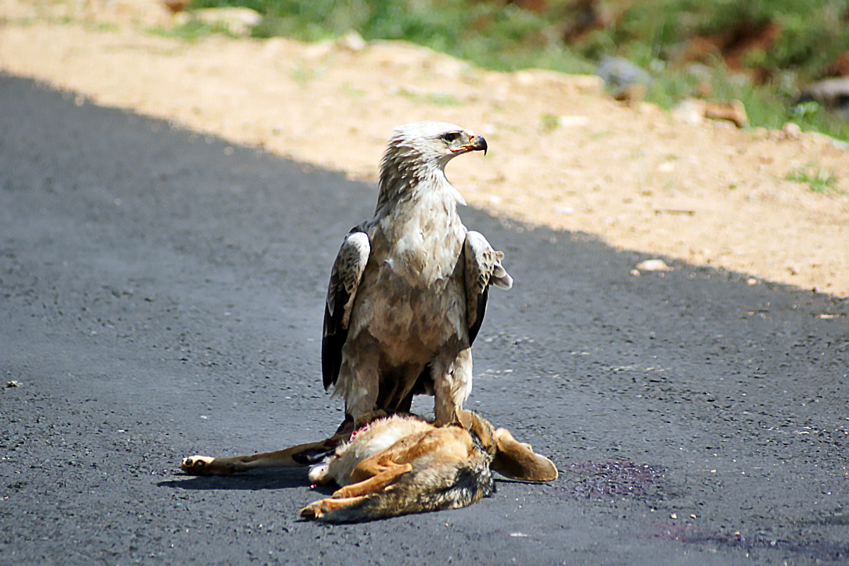 Tawny Eagle with a Black-backed Jackal road traffic victim on the road between Moyale to Awassa in Ethiopia.